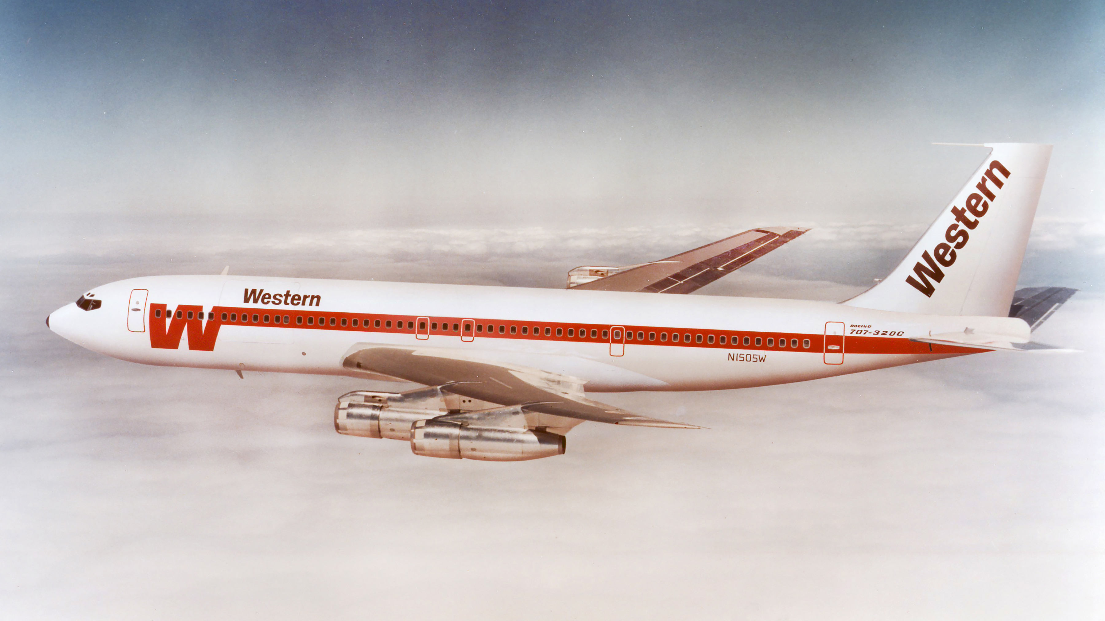 Western Airlines 707